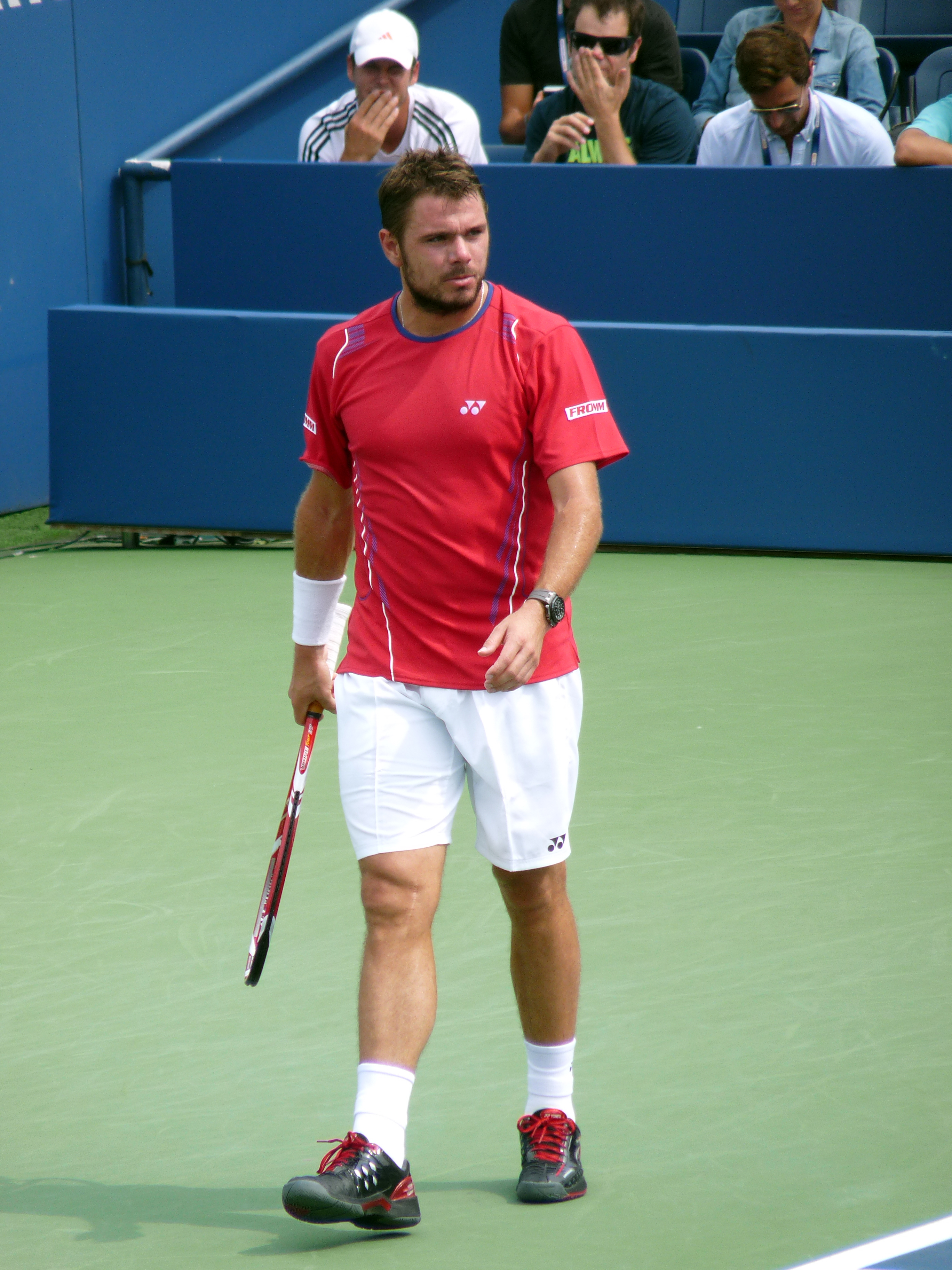 US Open 2013 – Men's Singles 3rd Round (Louis Armstrong Stadium) – Stanislas Wawrinka [9] vs. Cyprus Marcos Baghdatis: 6–3, 6–2, 61–7, 7–67